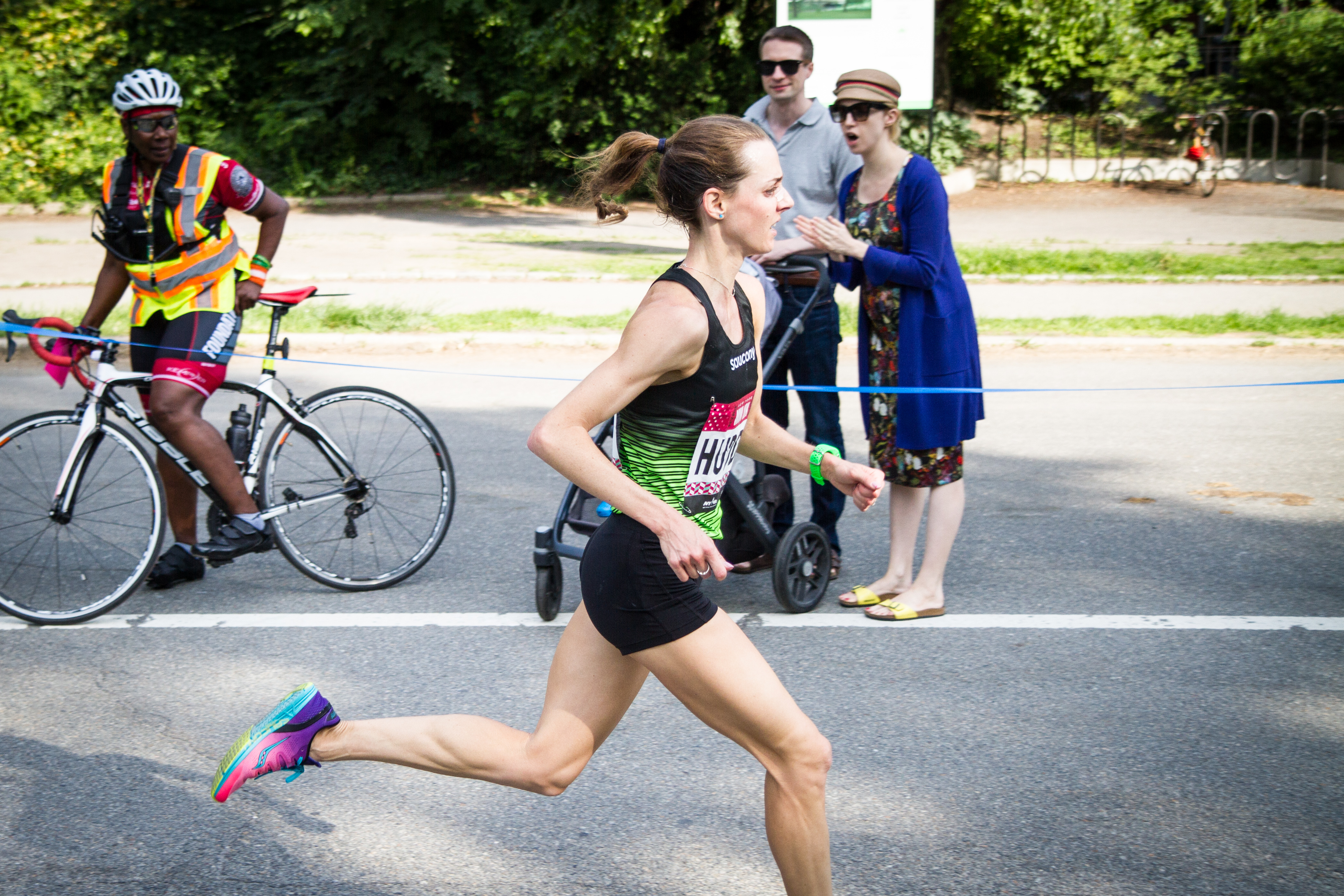 Elite women – NYRR Mini 10K 2018